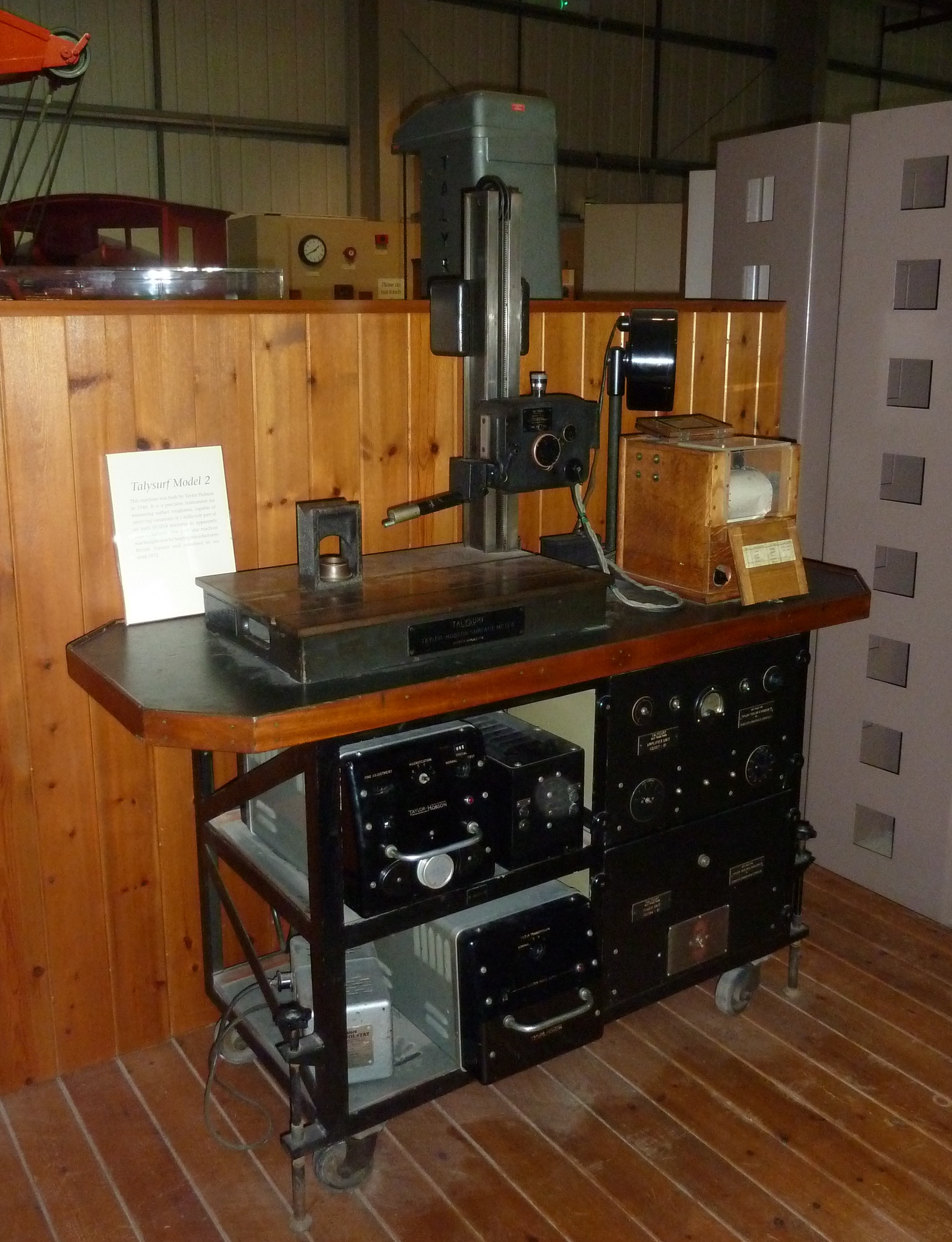 Original 1940s Taylor-Hobson 'Talysurf' surface profile measuring machine, at Snibston Discovery Museum